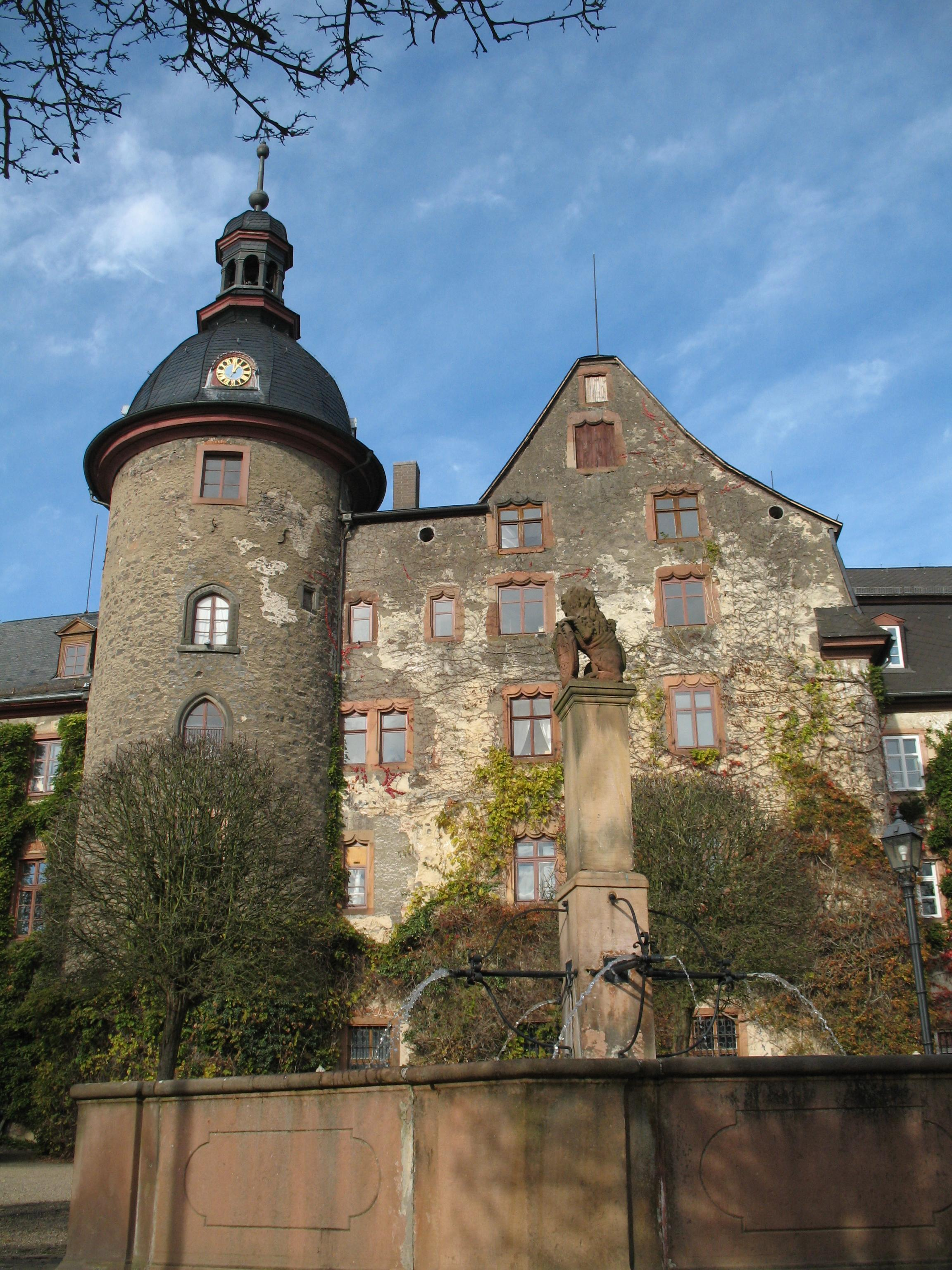 Fountain and castle in Laubach in Hesse, Germany